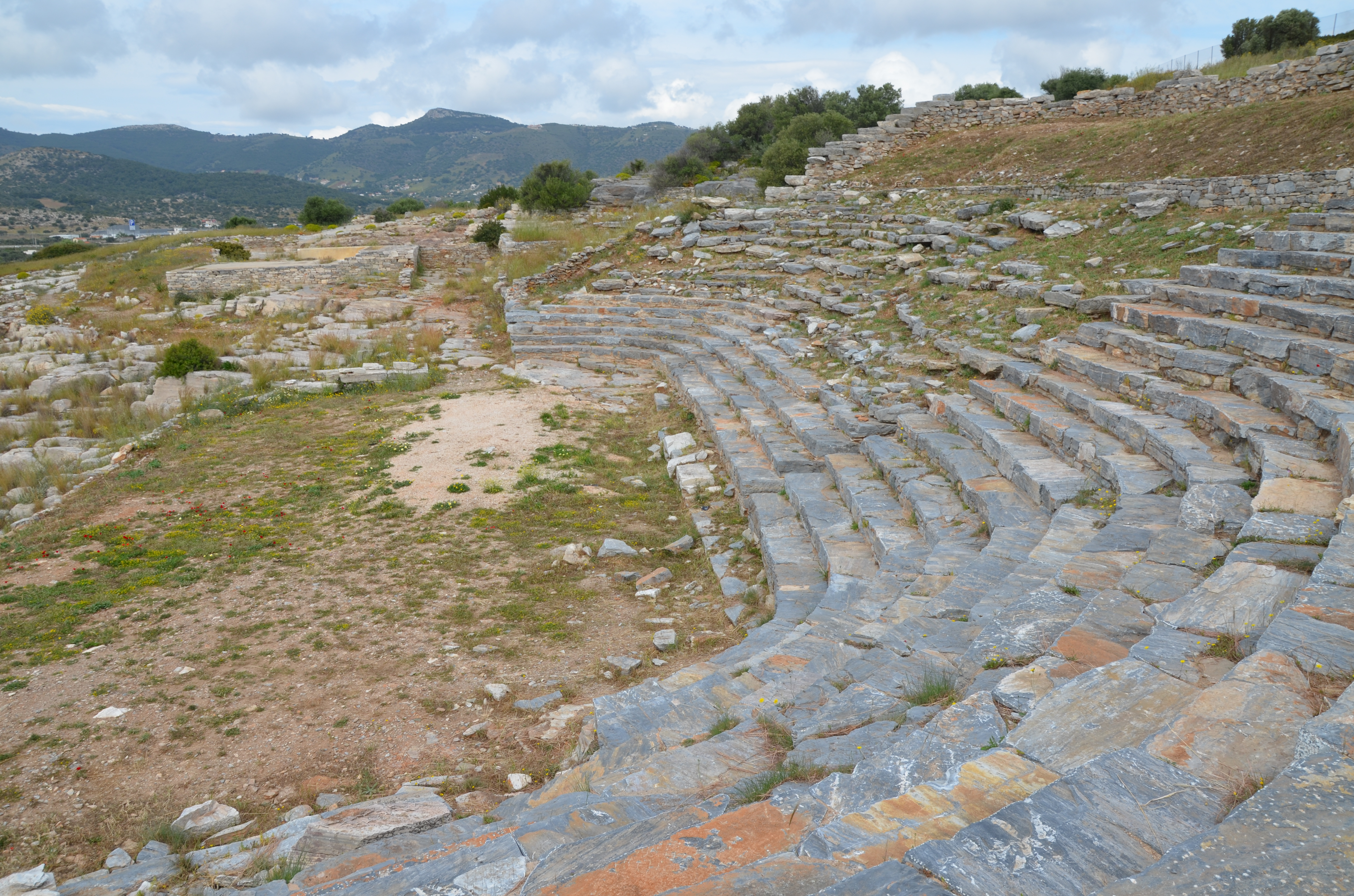 The Theatre at Thoricus, built ca. 525-480 BC presenting a unique elongated layout, Attica, Greece